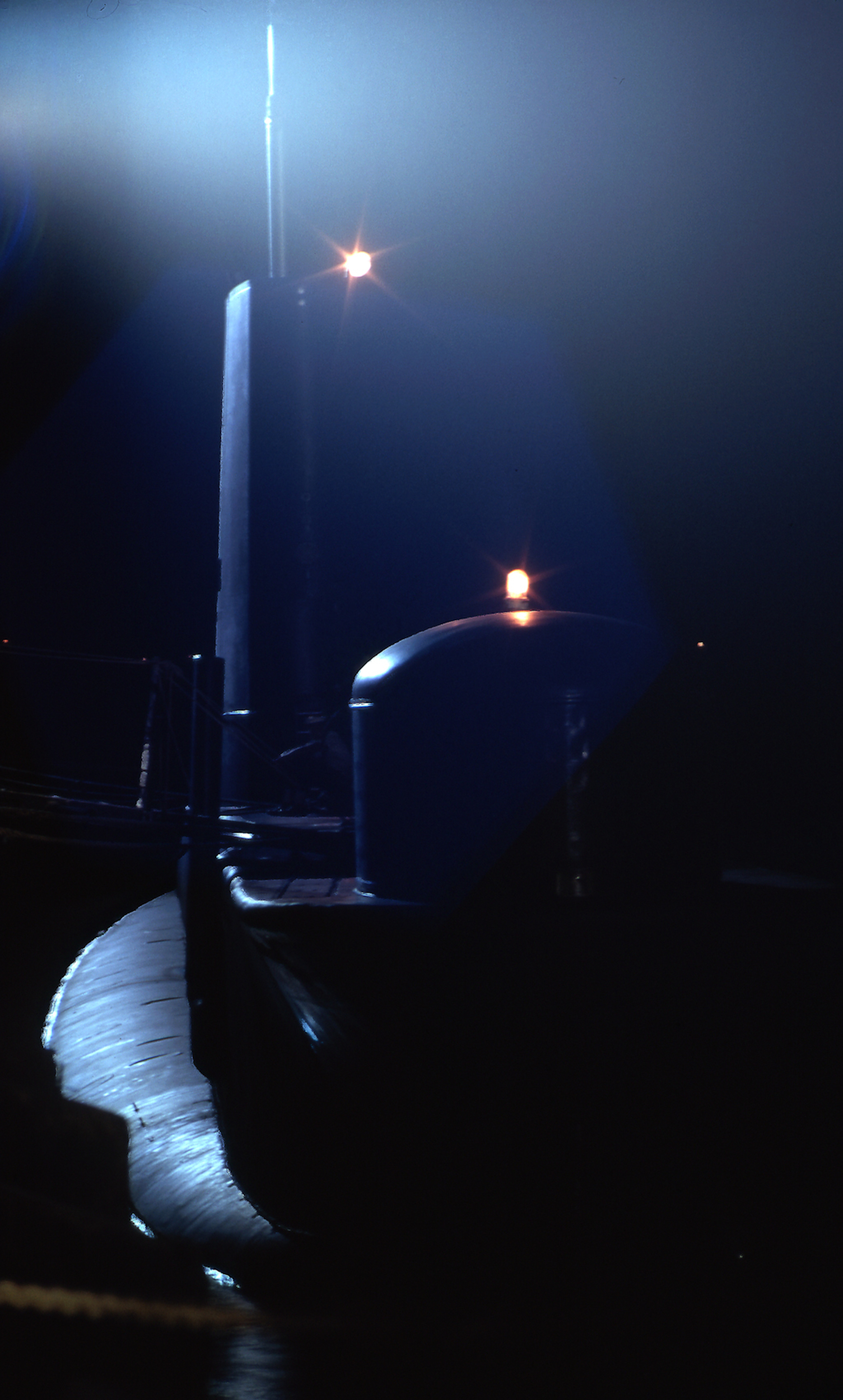 A Canadian W:Oberon-class submarine ('O-boat' or 'Super-O') - either the HMCS Onondaga or HMCS Okanagan - alongside in some W:Caribbean port or base; Roosey Roads, I seem to remember. We exercised every year in the late 1960s and early '70s (and likely afterwards) with US and other NATO Forces, during Operation Springboard.